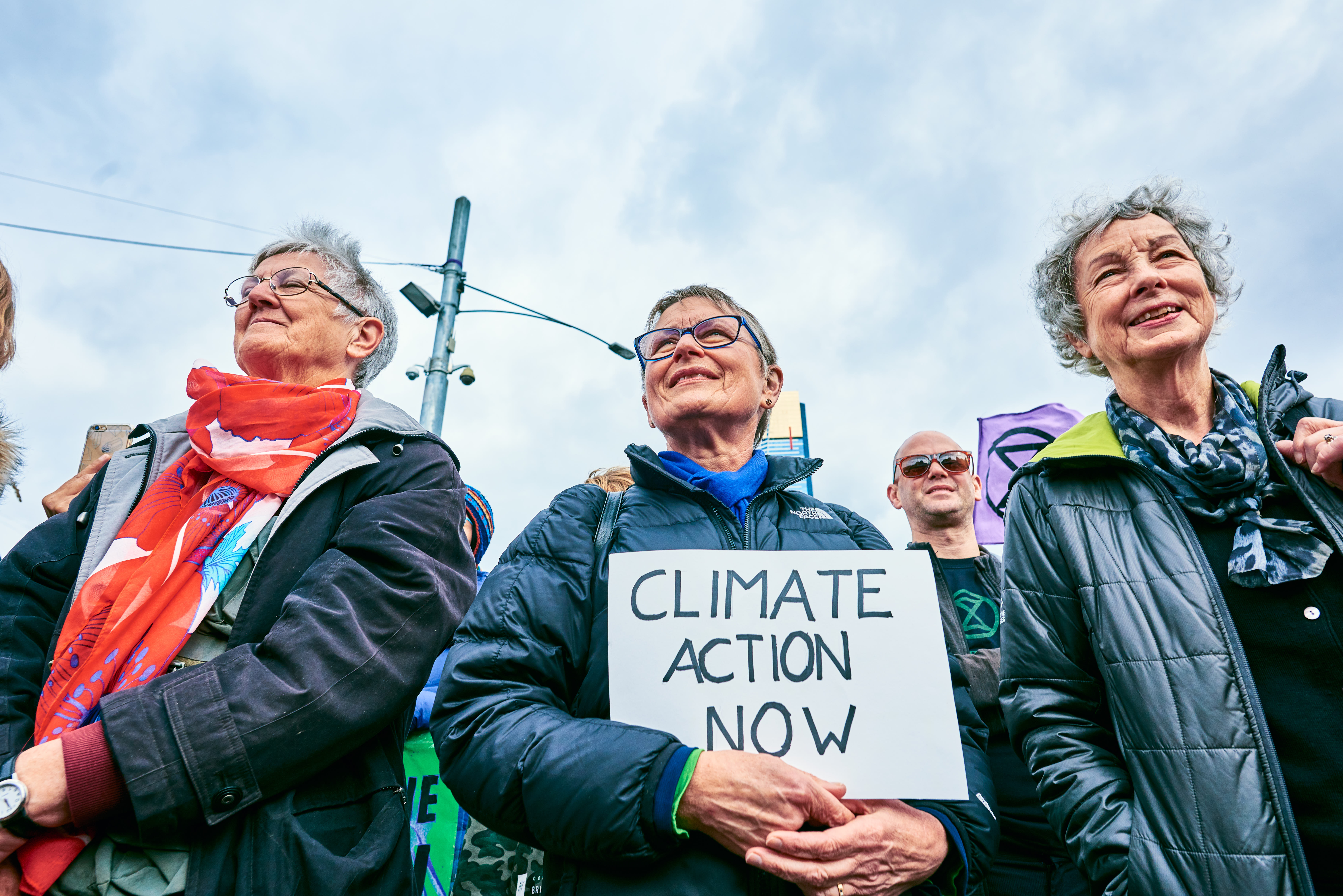 JMP_8761 XR Melbourne